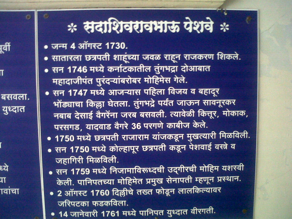 An information plaque describing The Great Peshwa - Sadashivrao Bhau. It is a part of The Peshwa Memorial atop Parvati Hill in Pune, India